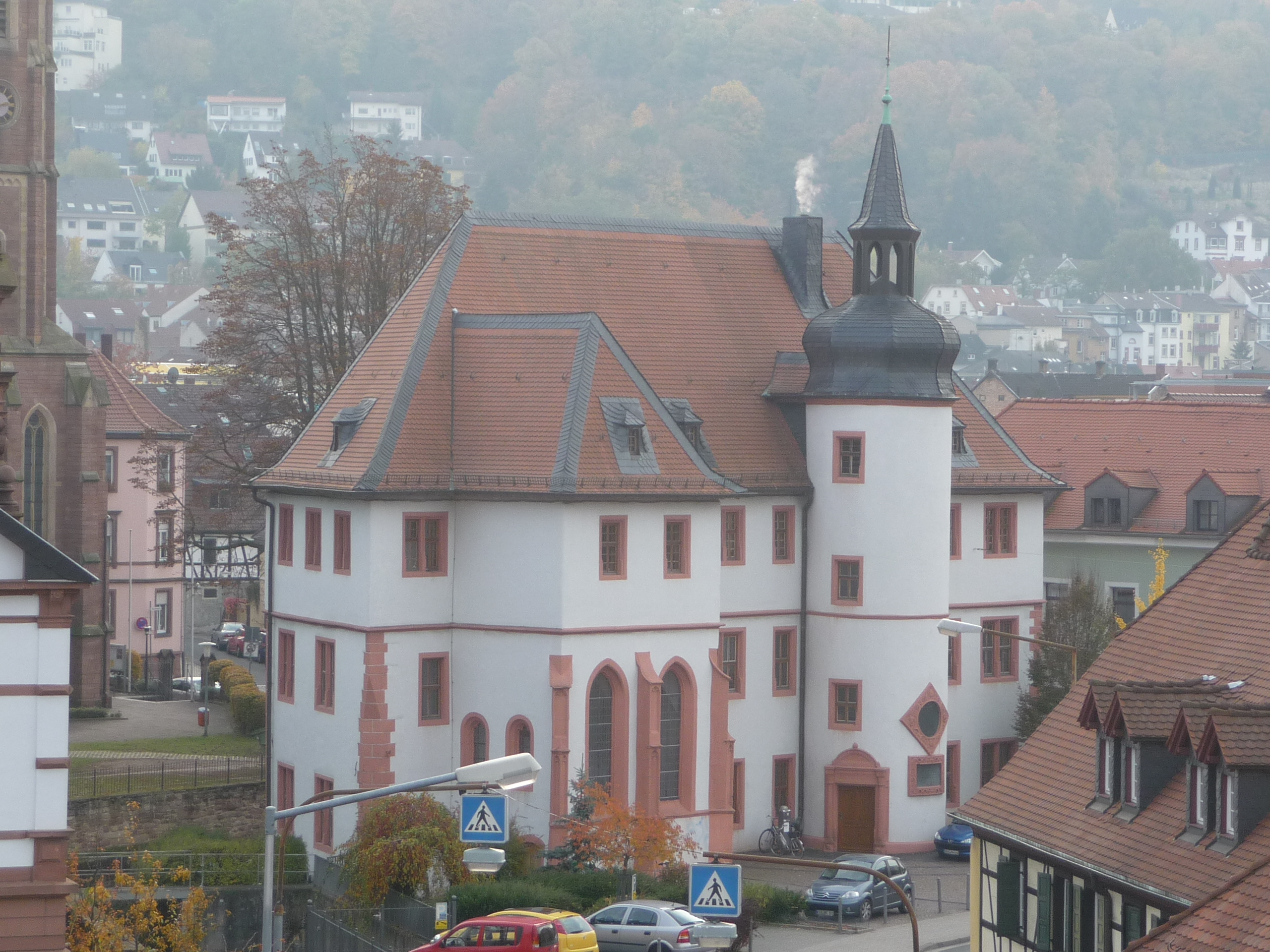 Neustadt an der Weinstraße